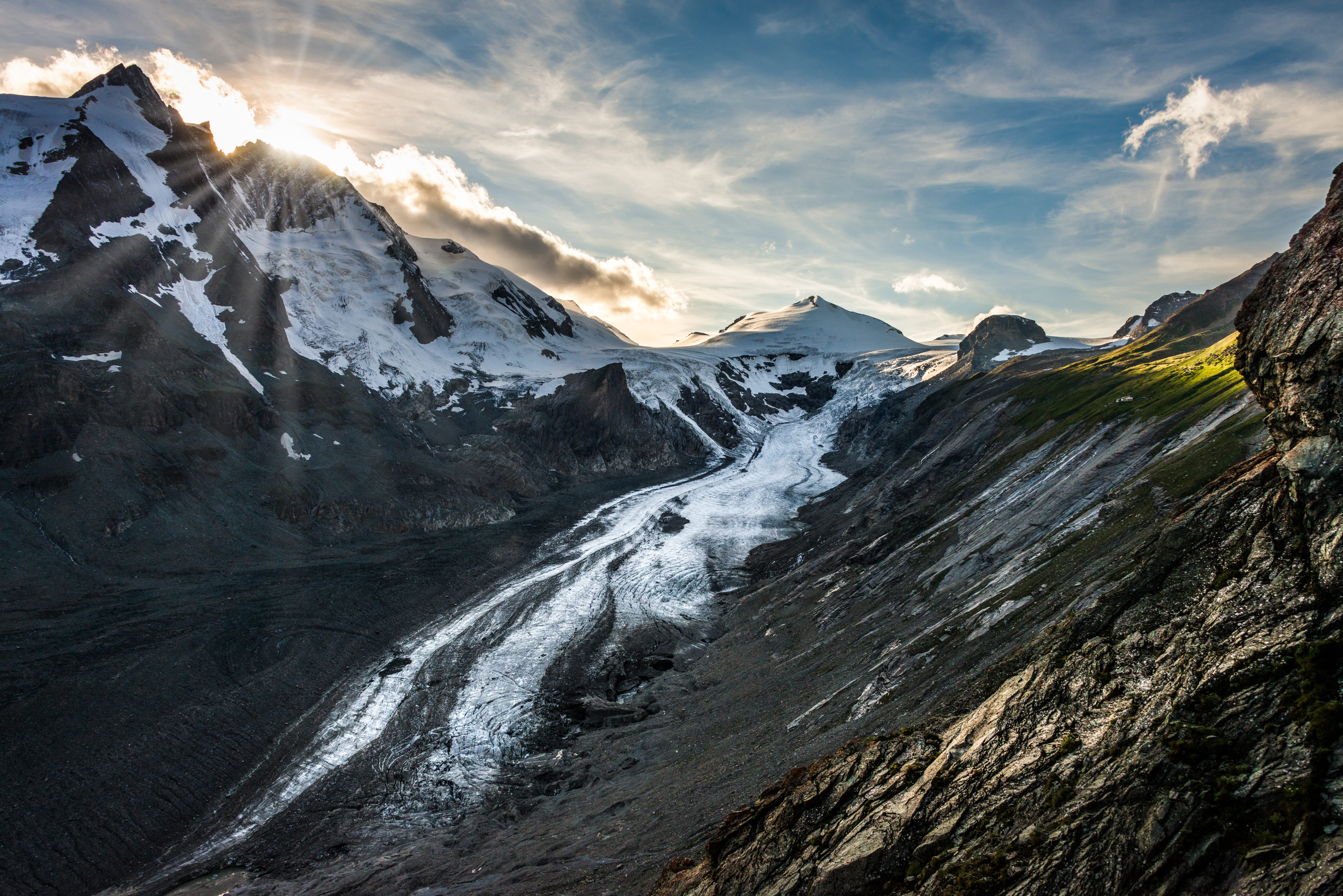 The Pasterze, the longest glacier in Austria, lies within the Hohe Tauern mountain range in Carinthia. The summit on the left side of the image is the Grossglockner, Austria's highest mountain (3,798 m = 12,461 ft). Due to global warming, the Pasterze, once a proud glacier filling the valley, is rapidly fading away. Actually, the Pasterze is the fastest-dying Glacier in the Alps. In 2013 it lost about 100 meters of its length. This file shows the National Park Hohe Tauern in Austria.